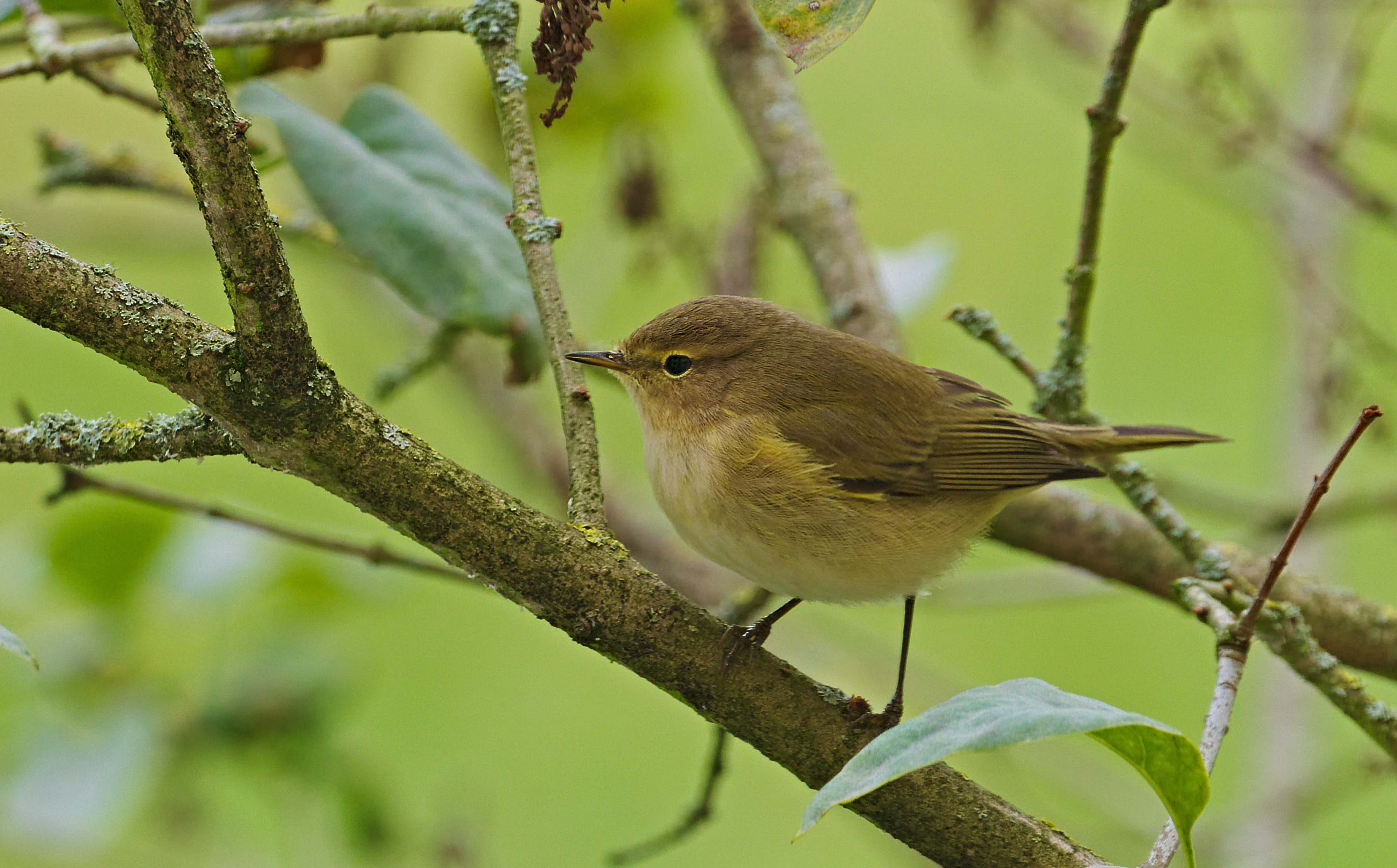 Common chiffchaff - Phylloscopus collybita. Taken in Mannheim-Vogelstang, Baden-Württemberg, Germany.